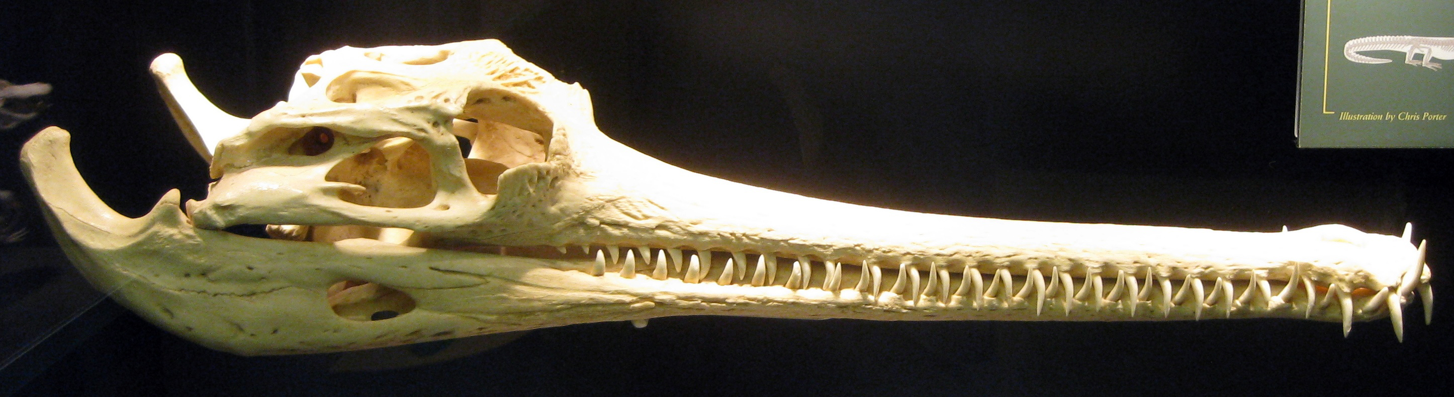 Skull of a modern day Gharial (Gavialis)